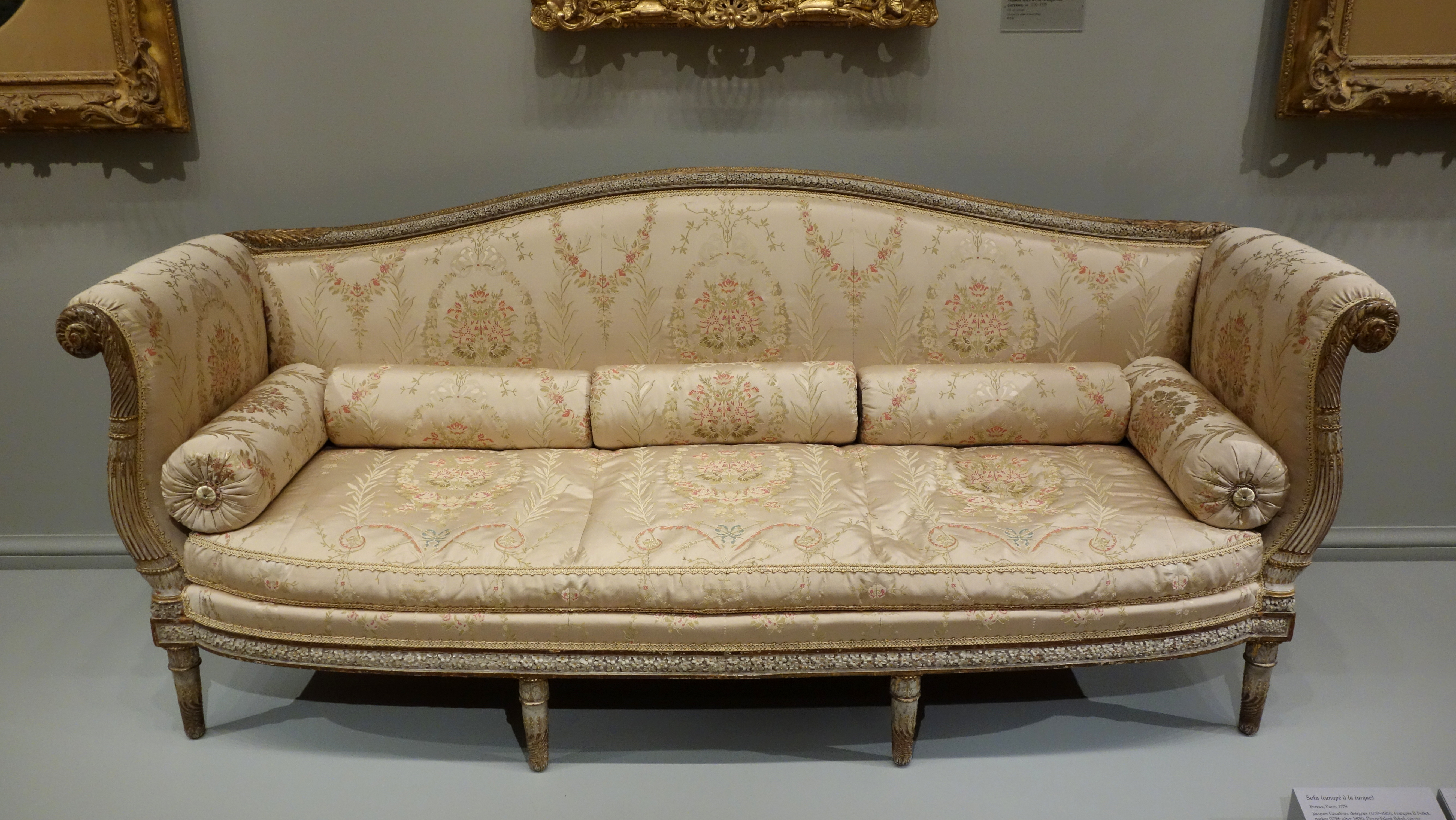 Canapé à la turque. Exhibit in the California Palace of the Legion of Honor, San Francisco, California, USA. This work is old enough so that it is in the public domain.